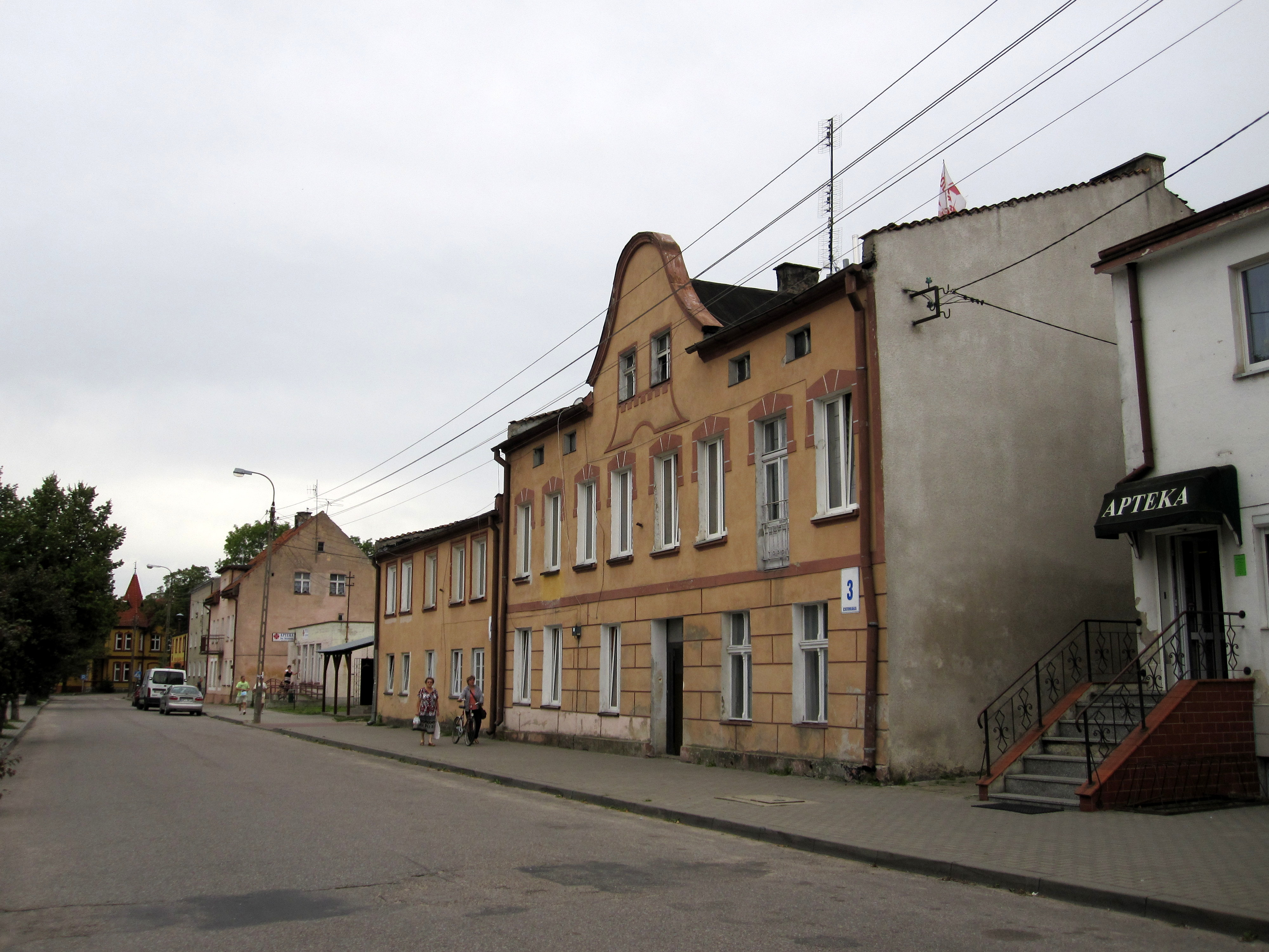 Building on 3 and 4 Cierniaka street in Orzysz